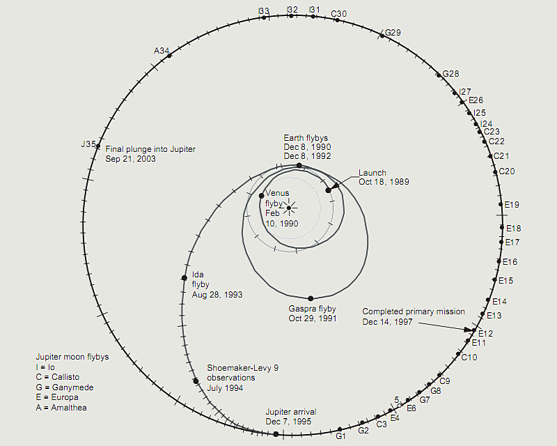 Galileo spacecraft trajectory and key mission events